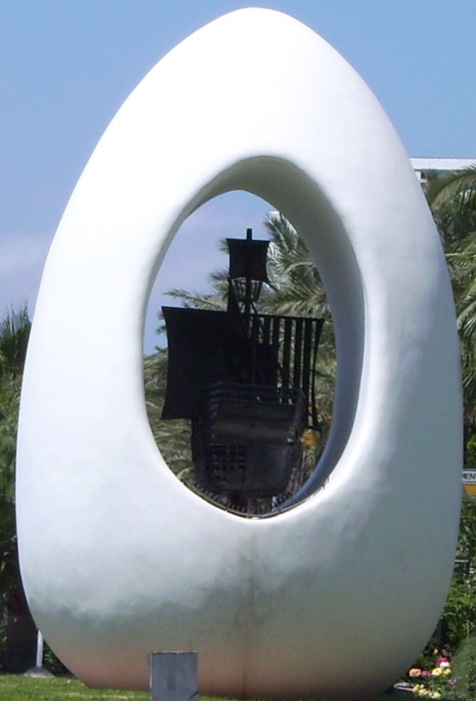 "Egg of Columbus" in Sant Antoni de Portmany, Ibiza, Spain.